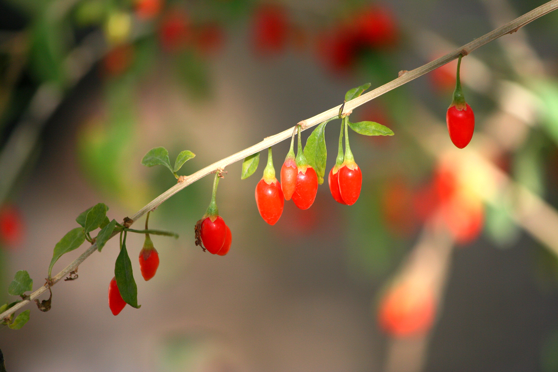 Lycium chinense is one of two species of boxthorn in the family Solanaceae from which the goji berry or wolfberry is harvested, the other being Lycium barbarum. Two varieties are recognized,chinense var. chinense and L. chinense var. potaninii. It is also known as Chinese boxthorn, Chinese matrimony-vine, Chinese teaplant, Chinese wolfberry, wolfberry,and Chinese desert-thorn.